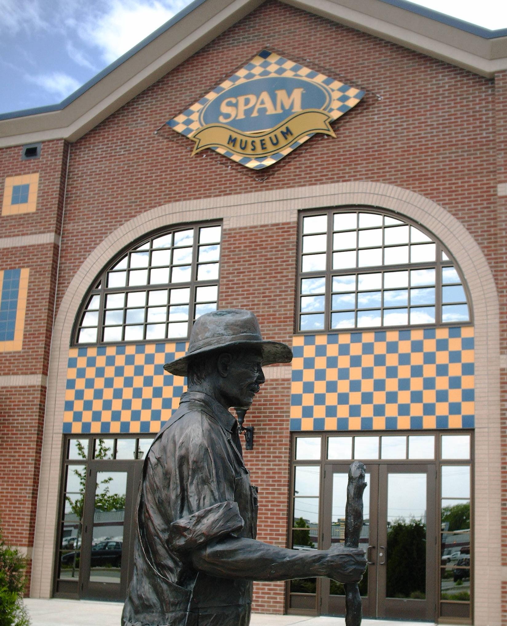 Photo I took 2006-05-20 outside the Hormel Spam Museum in Austin, Minnesota. CC & GFDL.